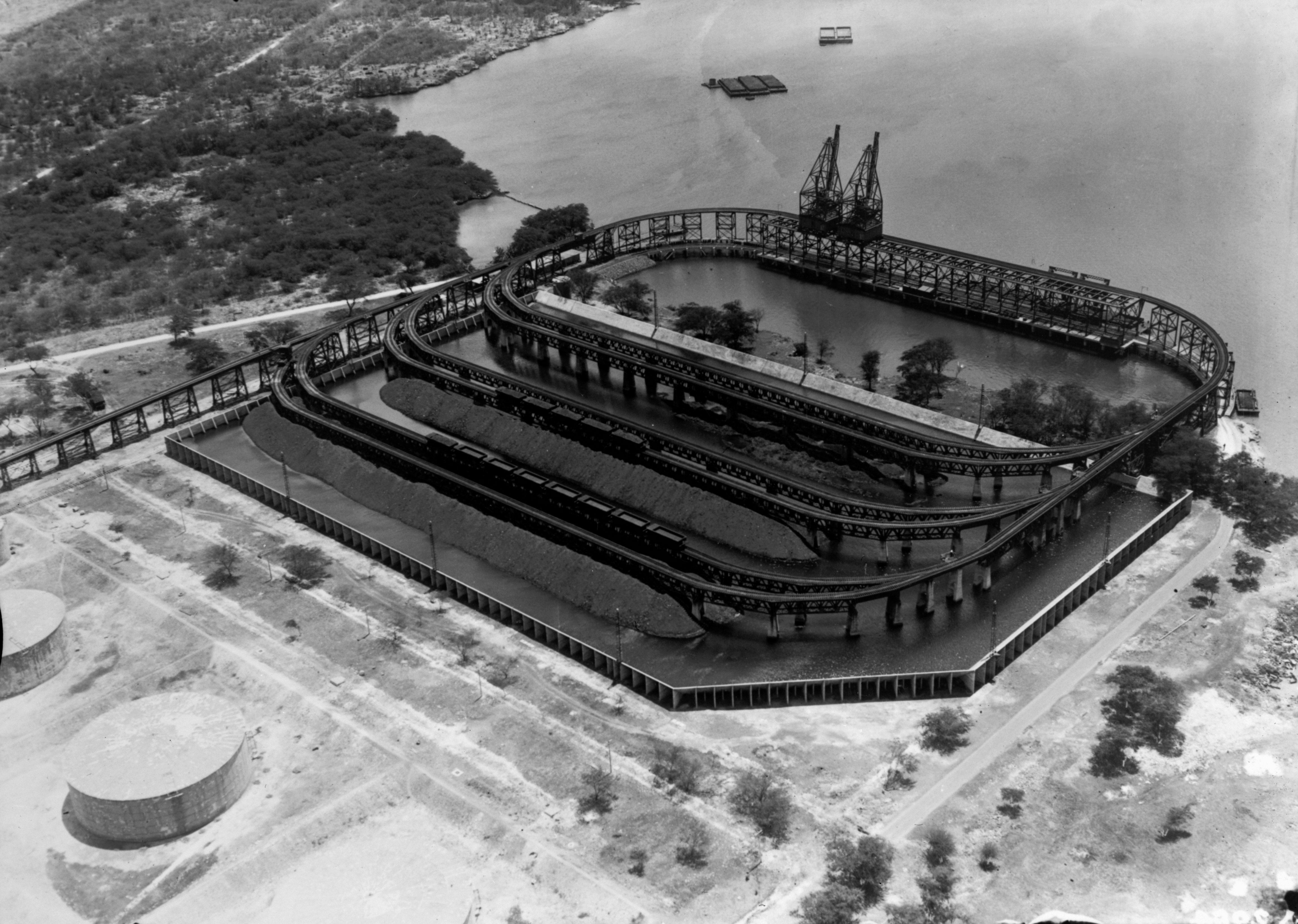 View of the coaling station at Pearl Harbor, Territory of Hawaii (USA), from the top of radio tower No.1.